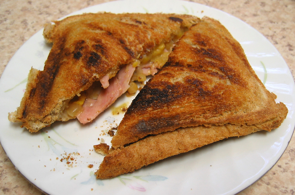 A toasted sandwich with a ham and creamed corn filling, with a hint of wholegrain mustard.